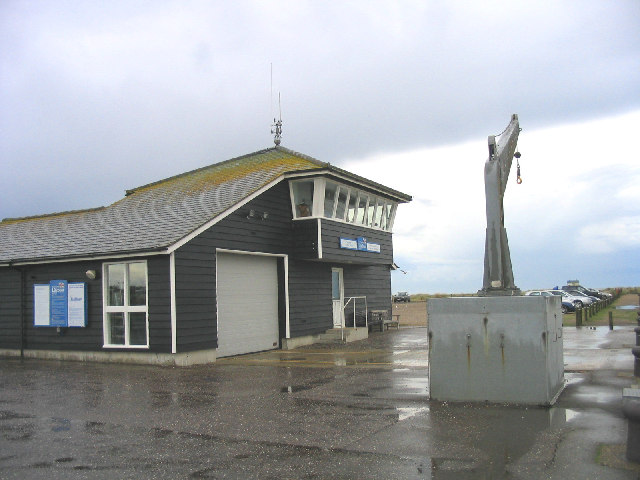 Southwold Lifeboat Station, Suffolk. This station houses an ATLANTIC 75 Class inshore rescue craft. The hoist on the right is used to launch the boat because of the tidal range of River Blyth.